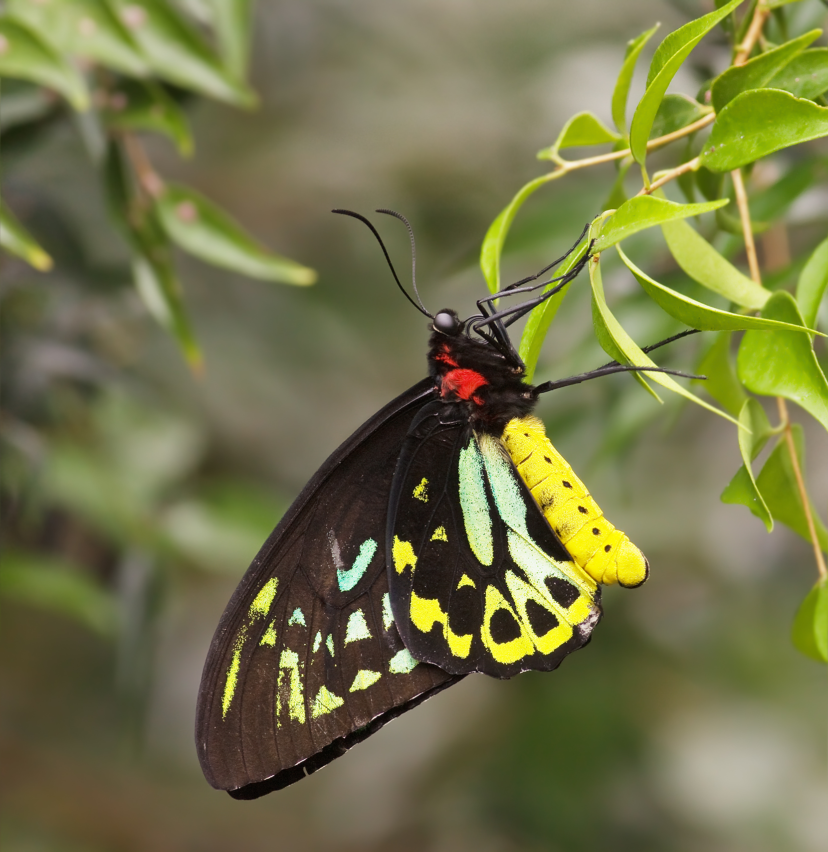 Cairns Birdwing (Ornithoptera euphorion), Melbourne Zoo, Melbourne, Victoria, Australia